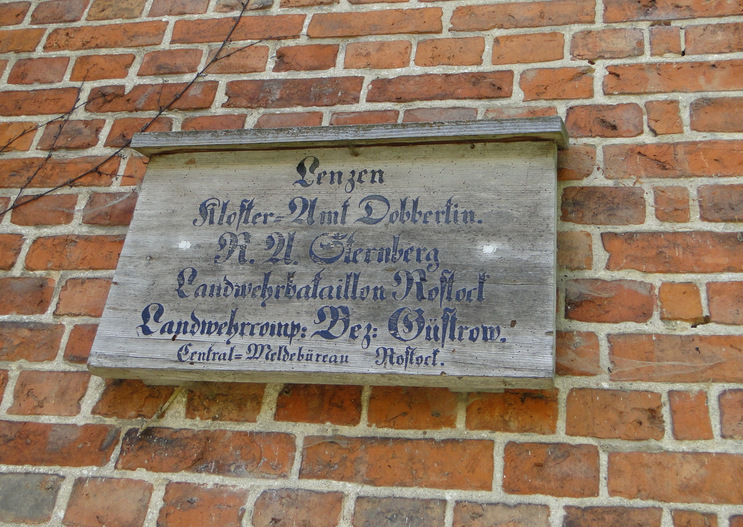 Old village sign in Lenzen, district Parchim, Mecklenburg-Vorpommern, Germany